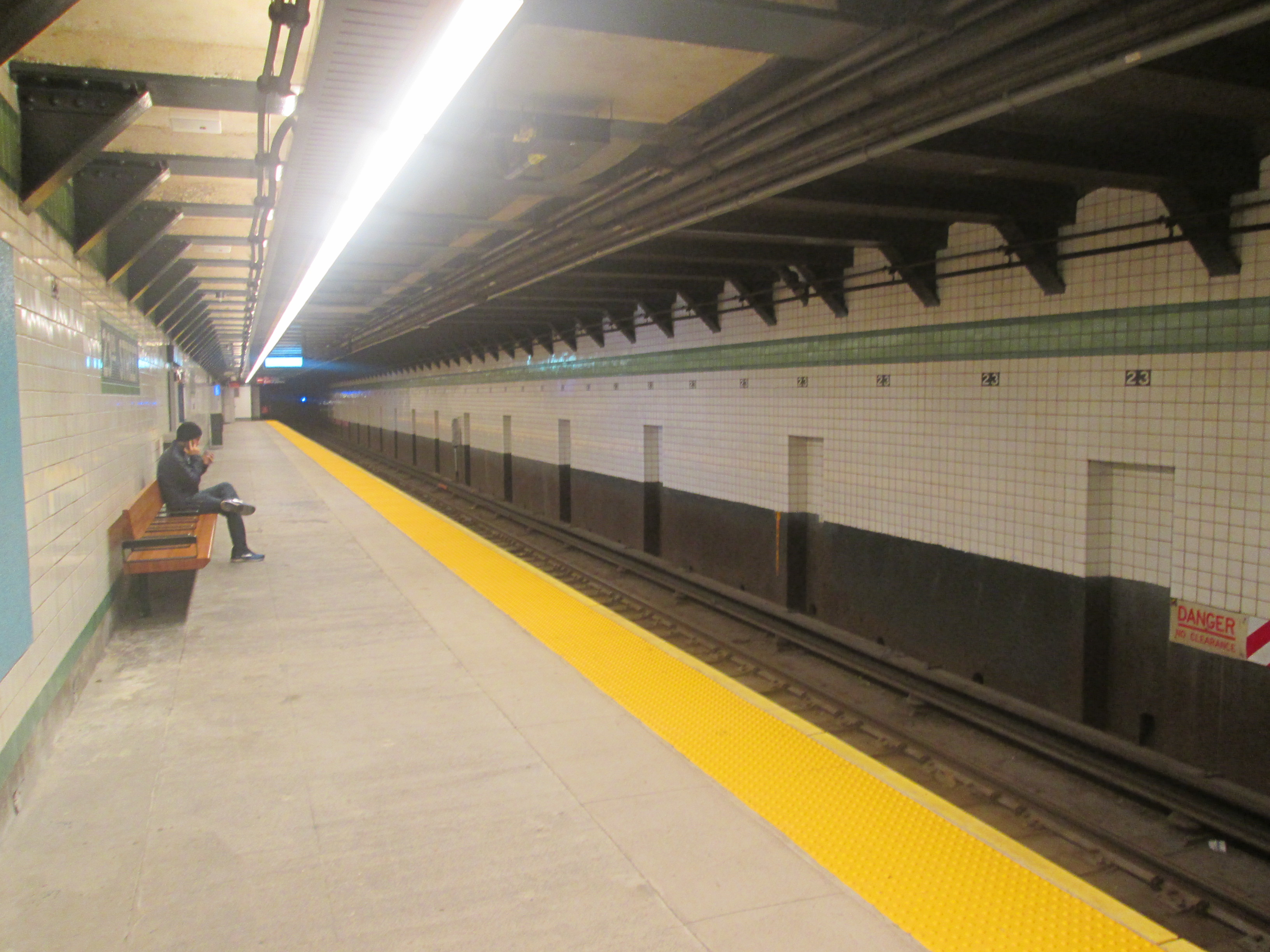 The 23rd Street/Sixth Avenue station in New York City after Enhanced Station Initiative renovations, seen in December 2018